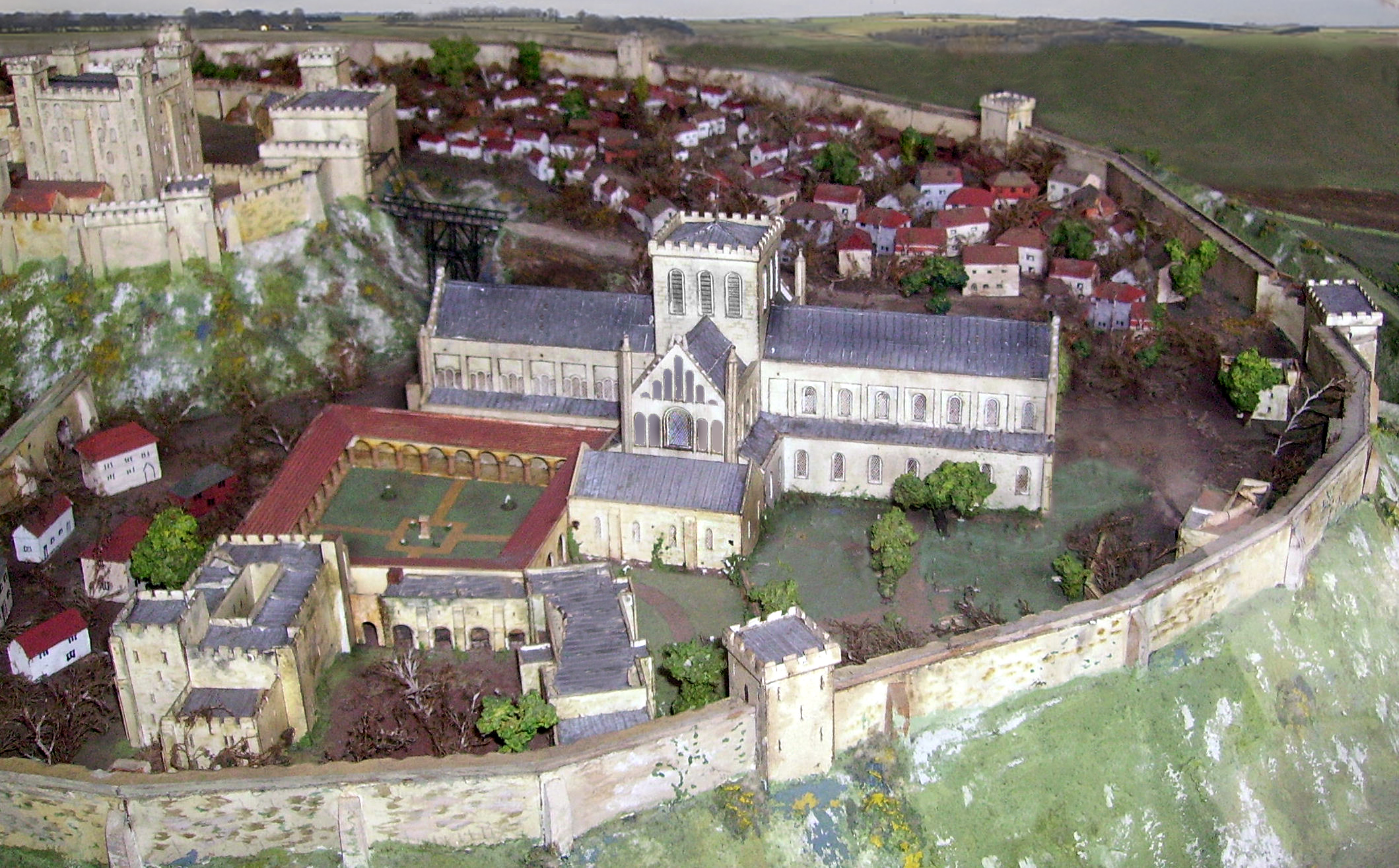 Model of Old Sarum in Salisbury Cathedral. Digitally modified to remove inaccurate west end towers from the model, revised damaged roof, added background.